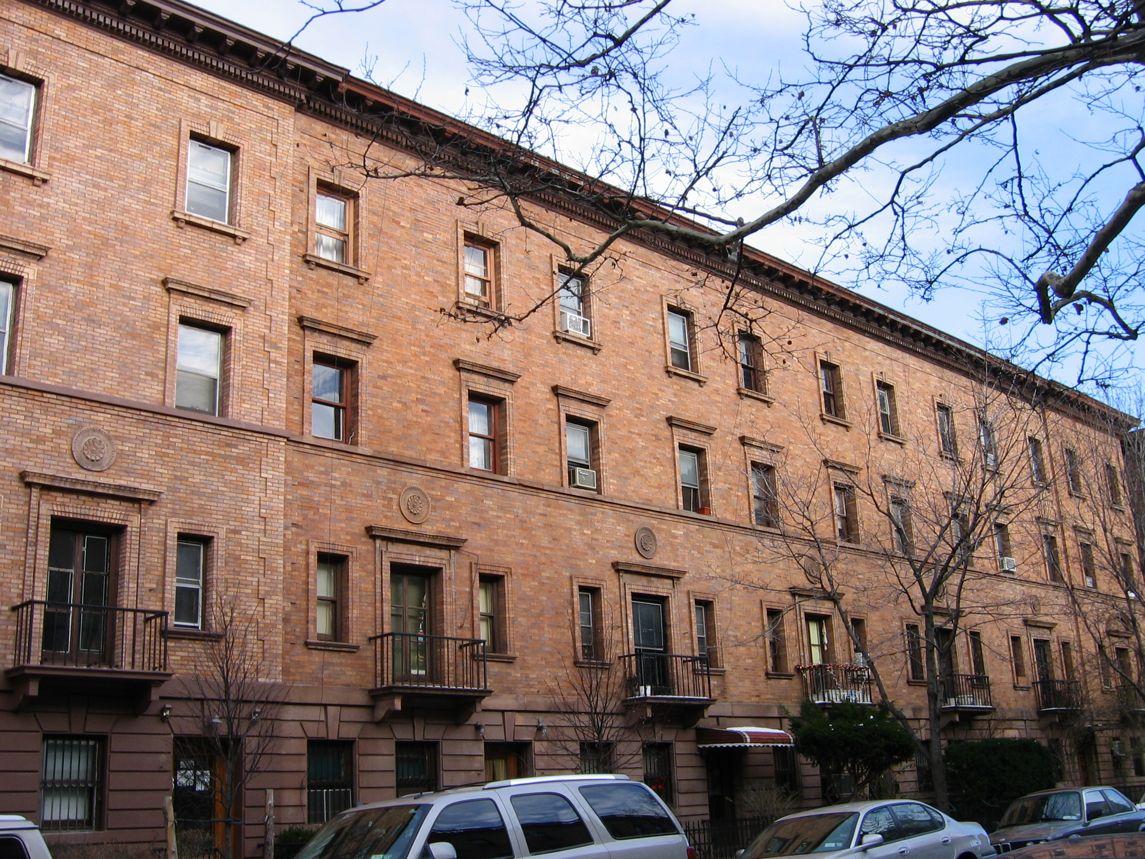 Strivers Row, north side of West 139th Street in Harlem, designed by Stanford White